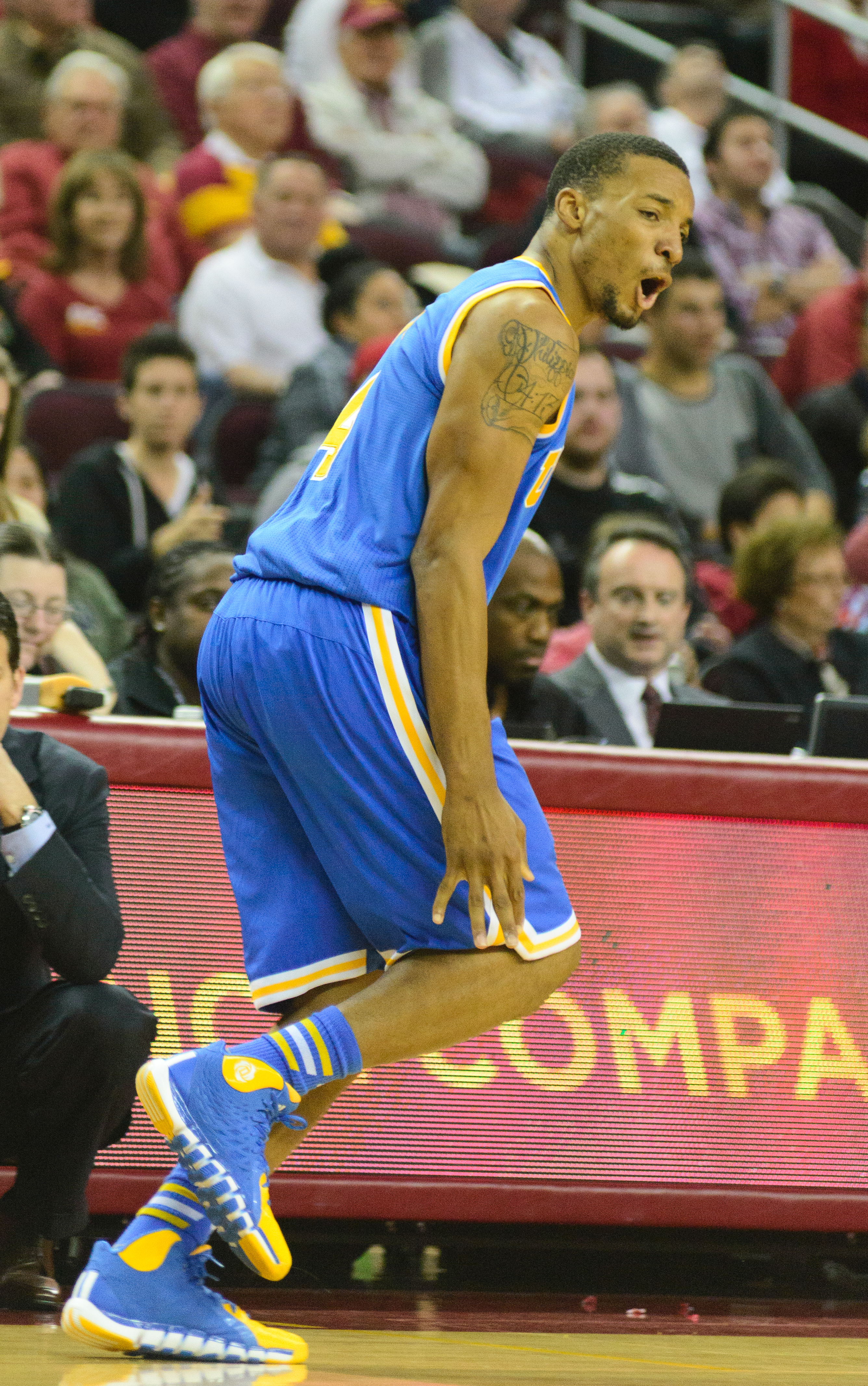 Norman Powell of the UCLA Bruins with coach Steve Alford looking on.